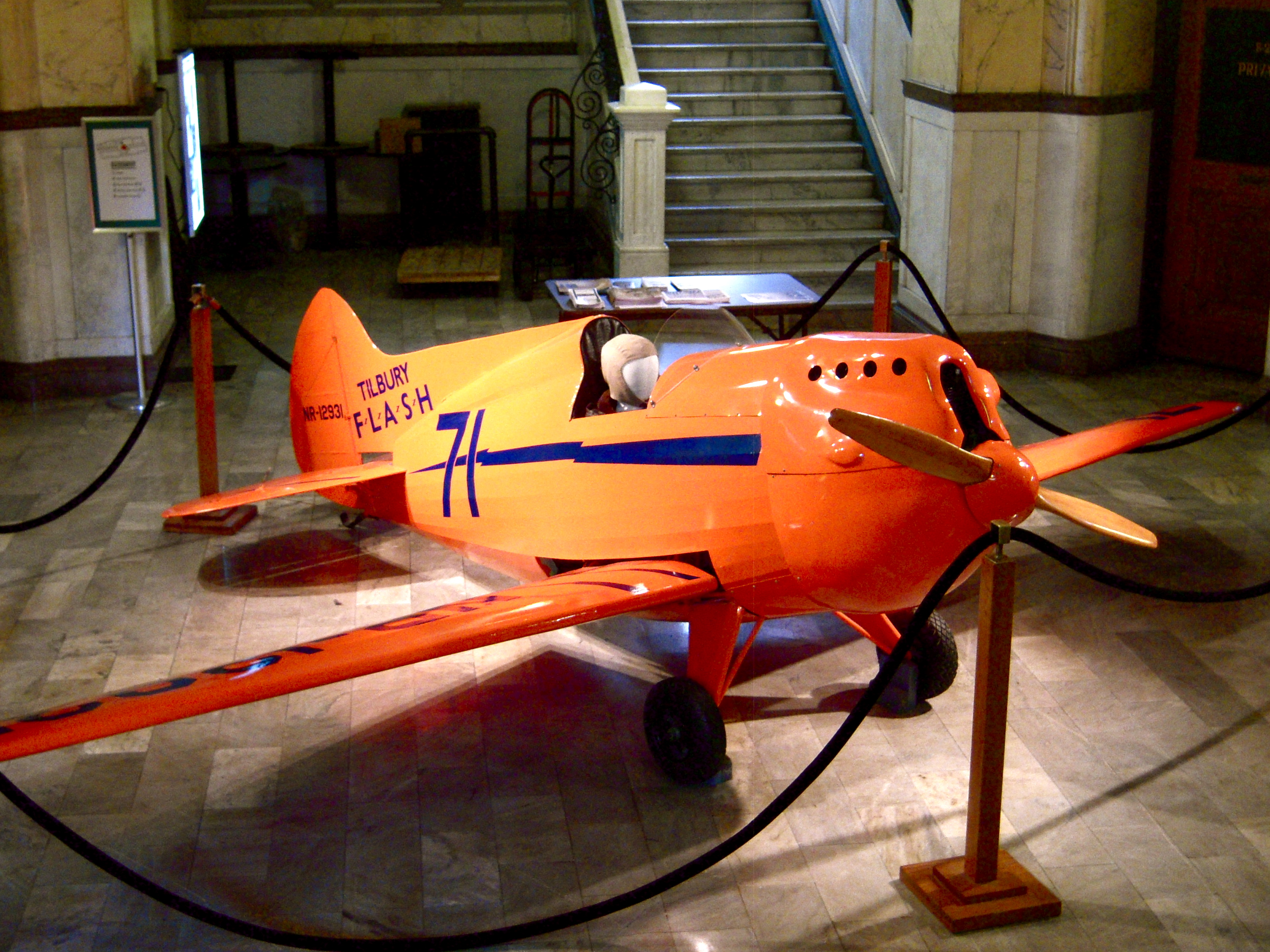 Held at the McLean County Museum of History in Bloomington, IL. Built by Owen Tilbury in 1932.